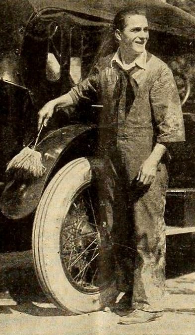 American actor George Larkin cleaning an automobile, on page 35 of the September 1919 Film Fun.